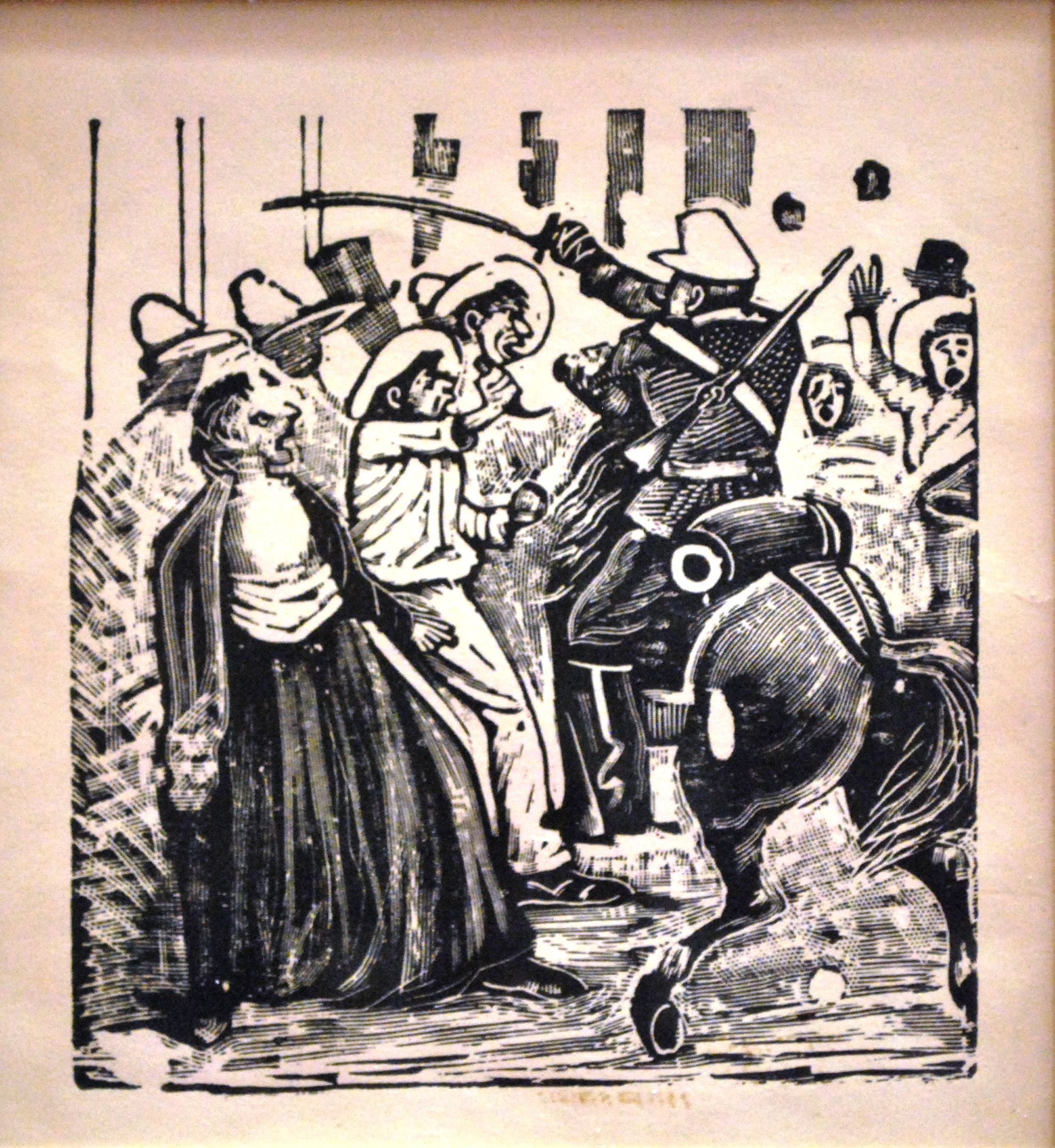 Political cartoon "Manifestación antireelecciónista" by José Guadalupe Posada Aguilar on display at the Museo Nacional de Arte in Mexico City